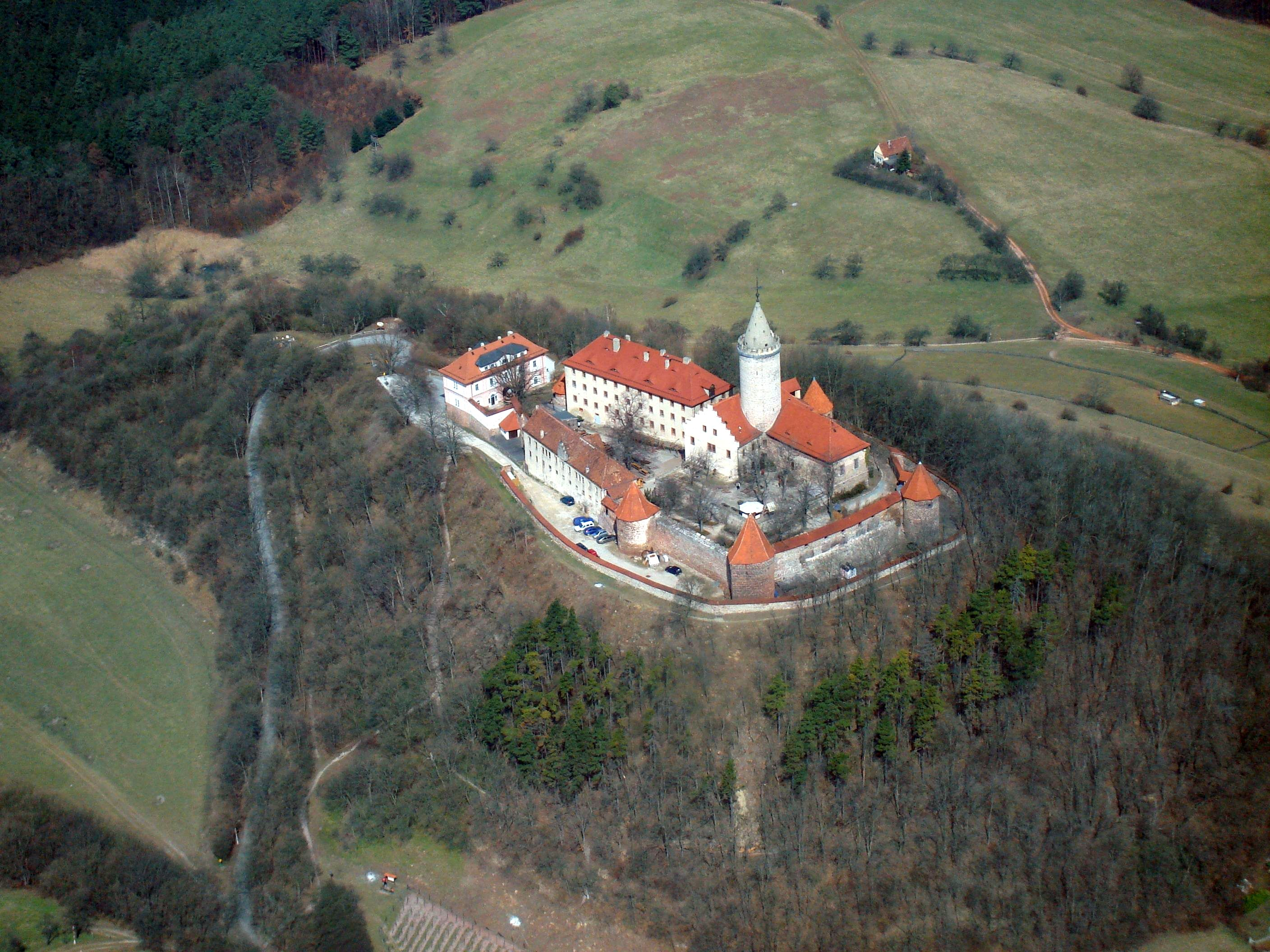 Arial view of castle Leuchtenburg bei Kahla, Germany.